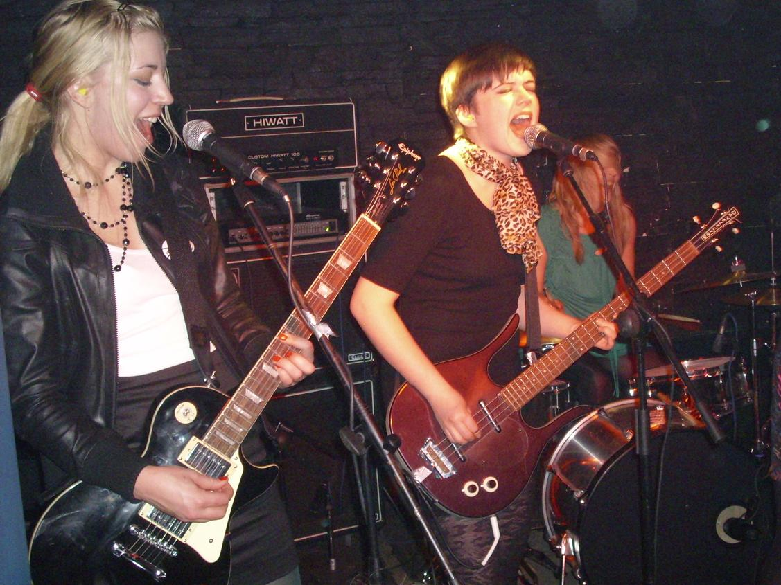 The Bombettes - Live Madrid 2009